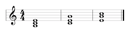 Minor chord Am: root and inversions